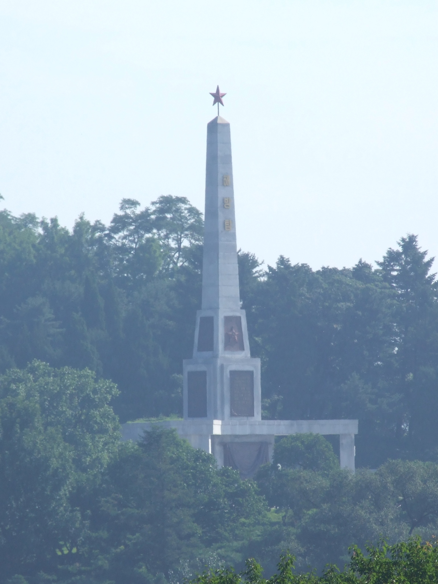 Liberation Monument in Pyongyang